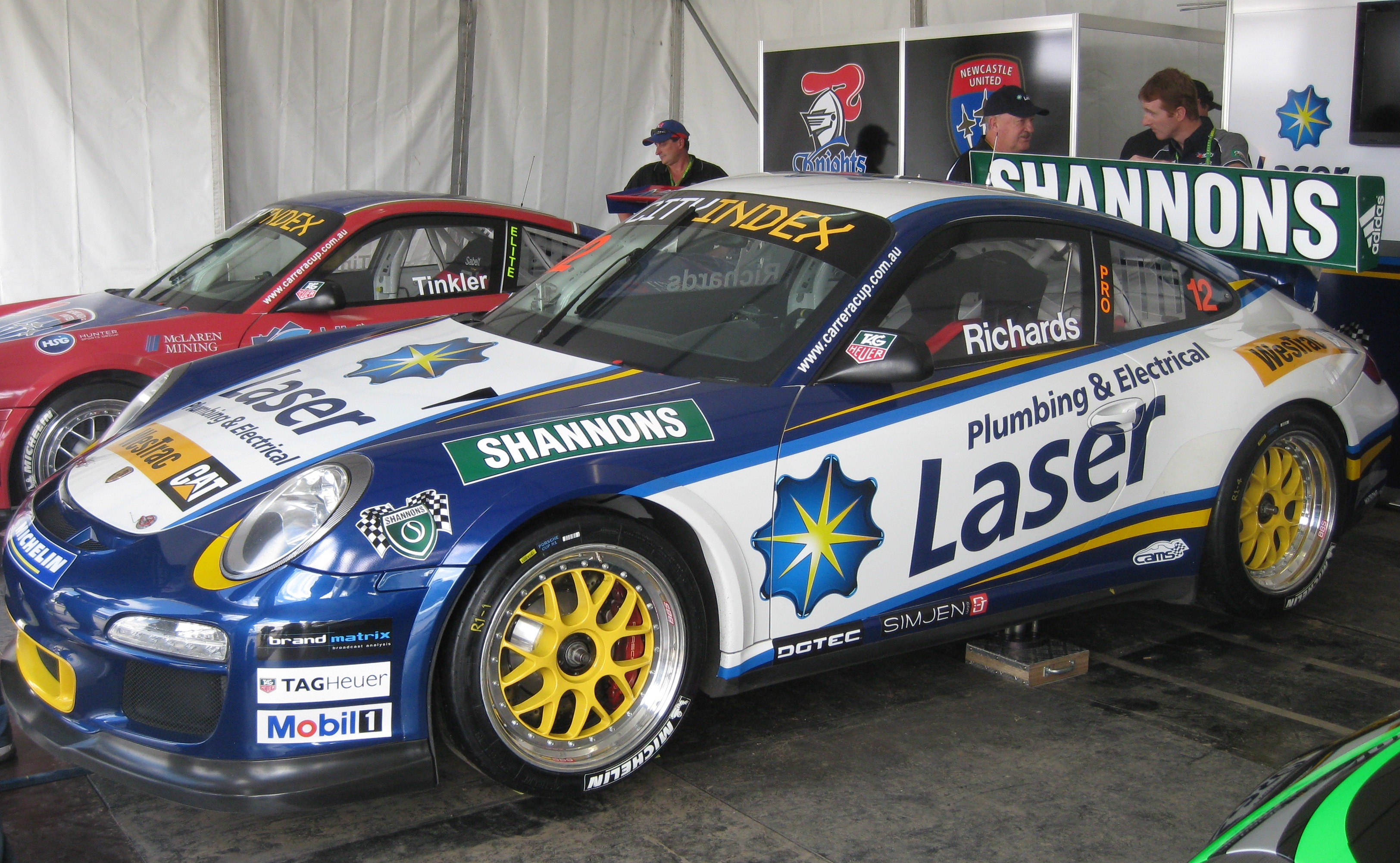 The Porsche 911 GT3 Cup Type 997 of Steven Richards at the opening round of the 2012 Australian Carrera Cup Championship